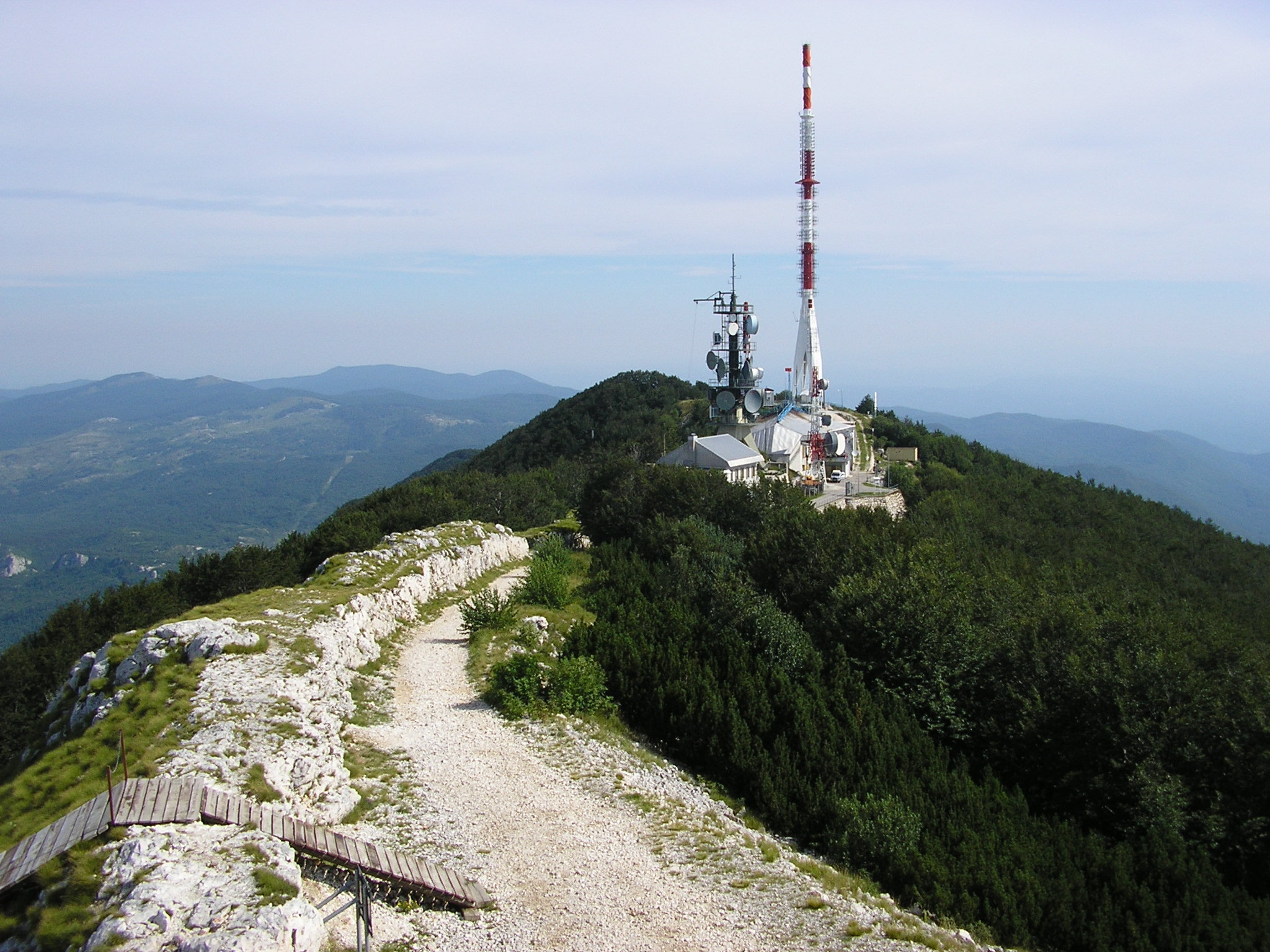 Top of Mt. Učka, Croatia